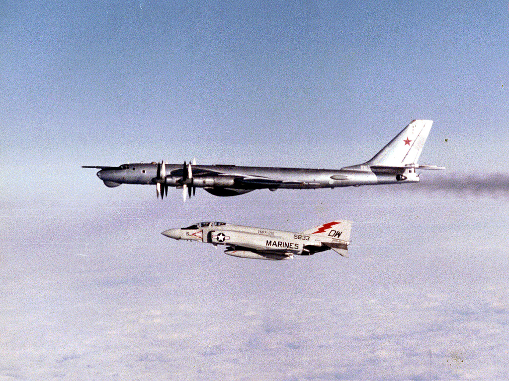 A McDonnell Douglas F-4J-35-MC Phantom II fighter (BuNo 155833) of U.S. Marine Corps fighter-bomber squadron VMFA-251 Thunderbolts intercepting a Soviet Topolev Tu-95 Bear D off Iceland in 1982.